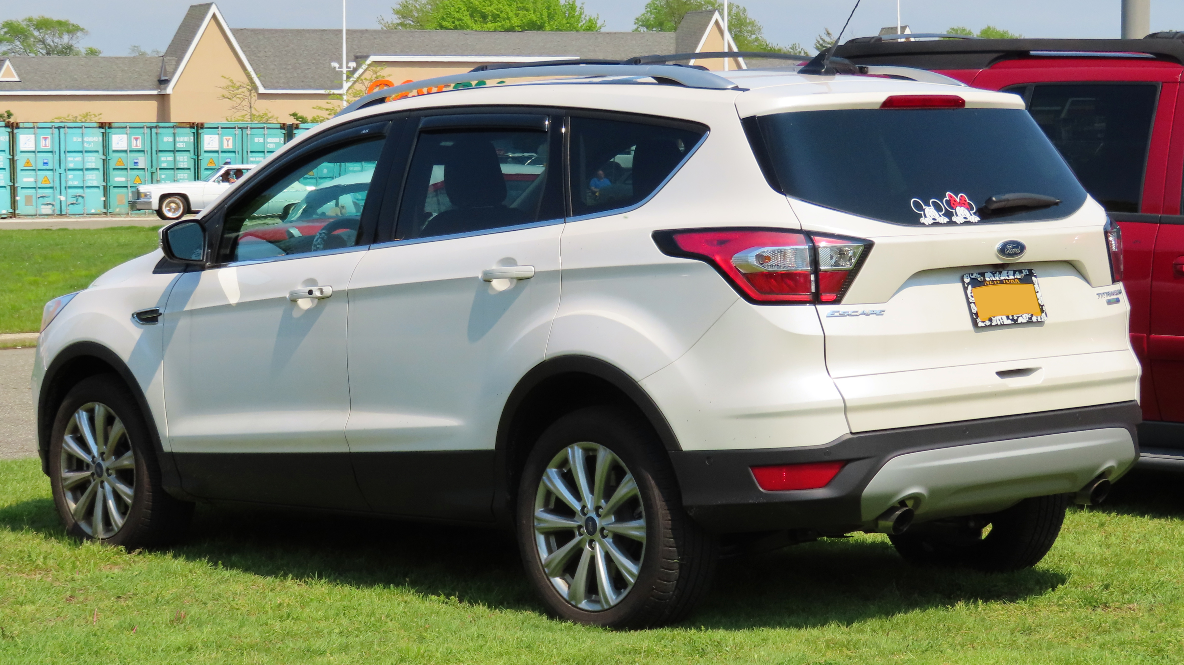 A 2018 Ford Escape Titanium photographed at Merrick, New York, USA